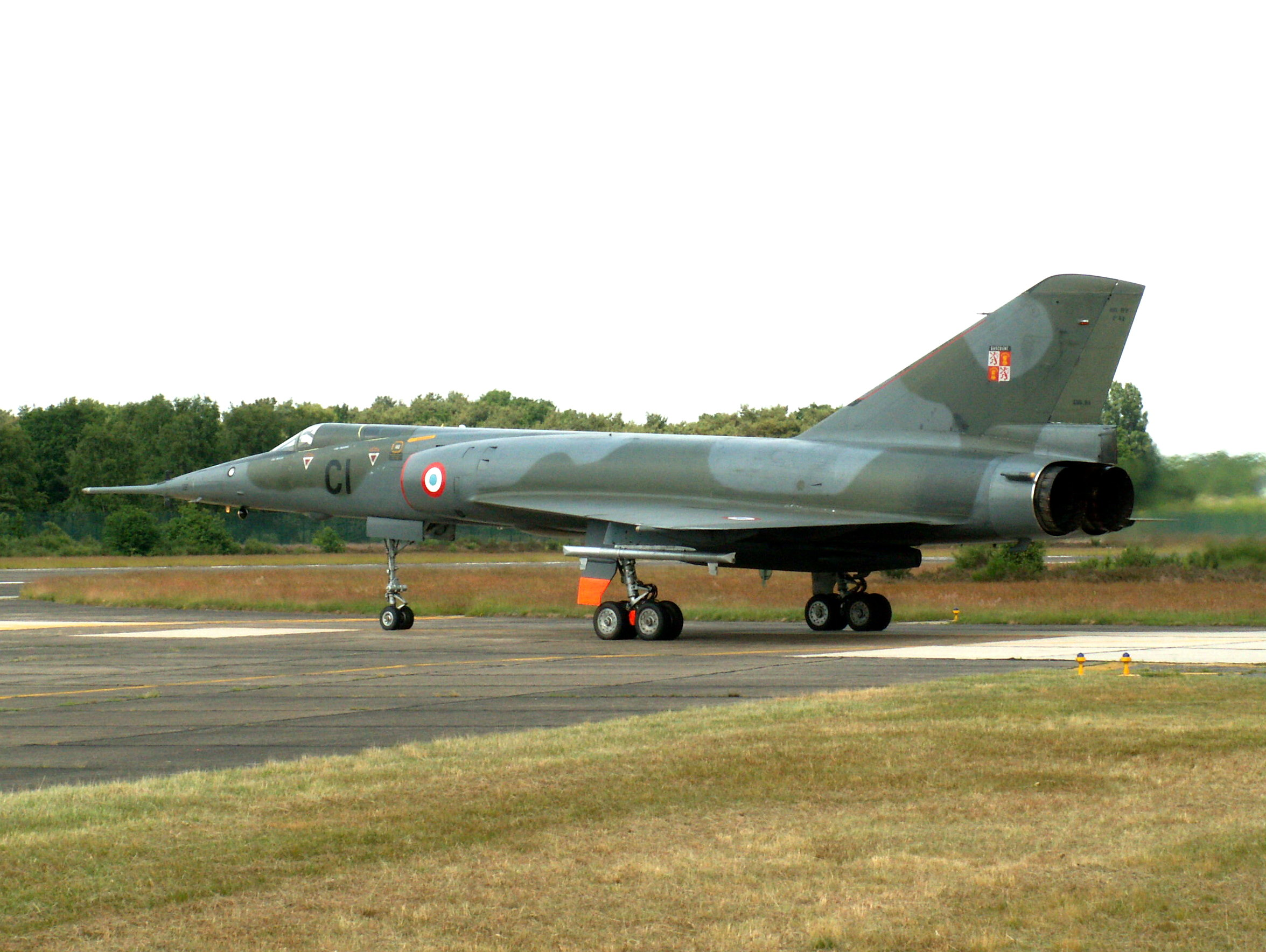 Photographed at a Spottersday 2005 at Kleine Brogel.